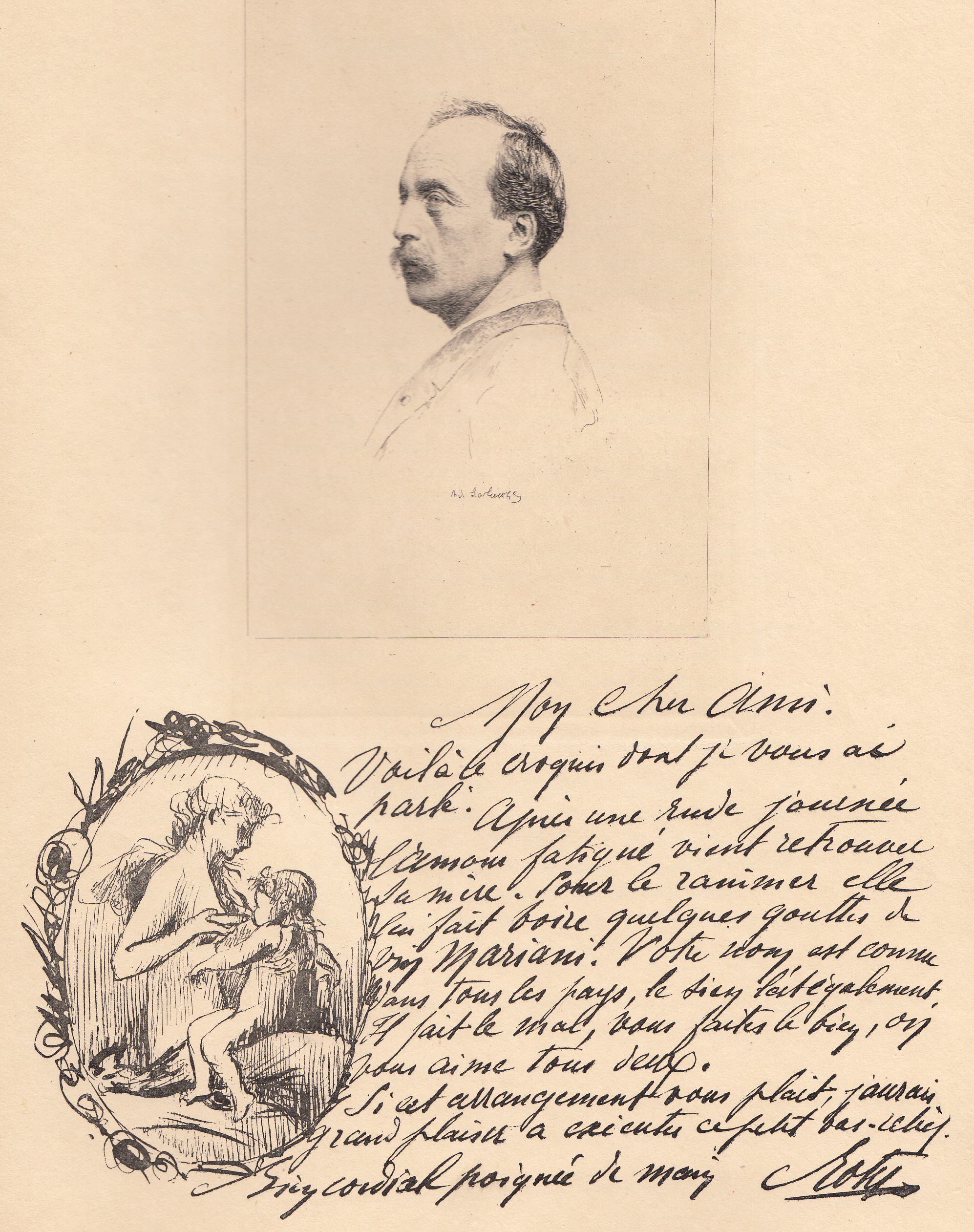 French numismatist Oscar Roty (1846-1911)